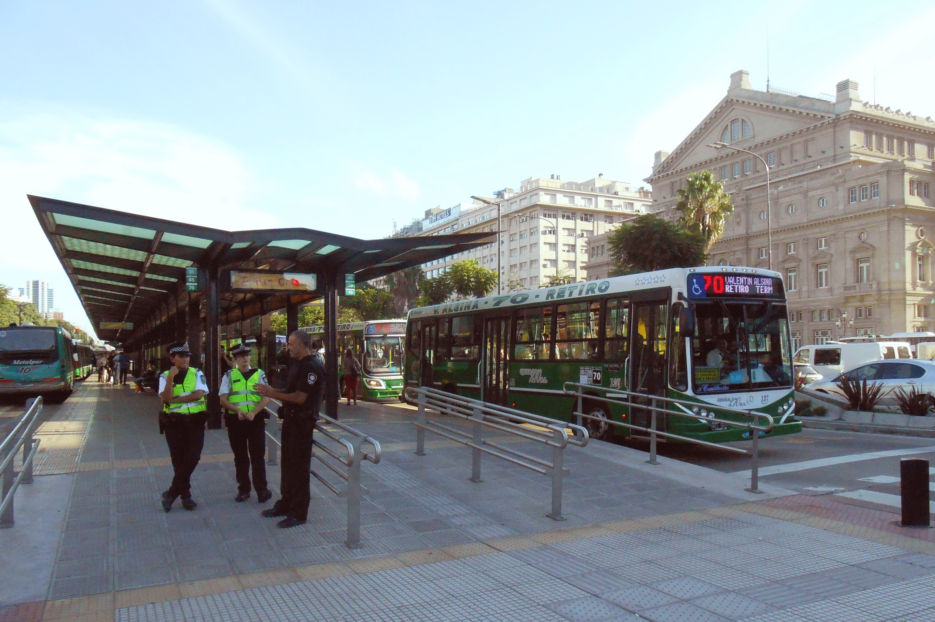 Metrobus Teatro Colon - Buenos Aires - Argentina